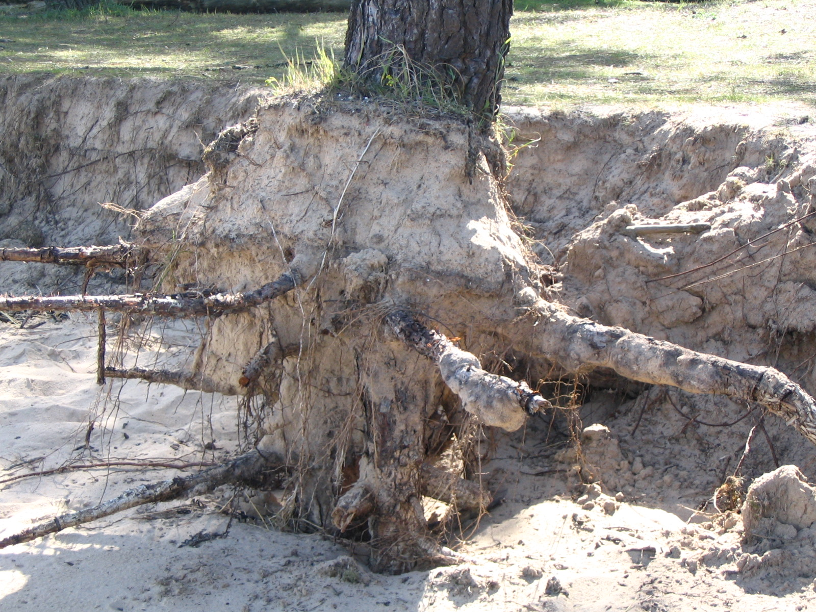 Effect of sea level increase in France (Island of Ré)